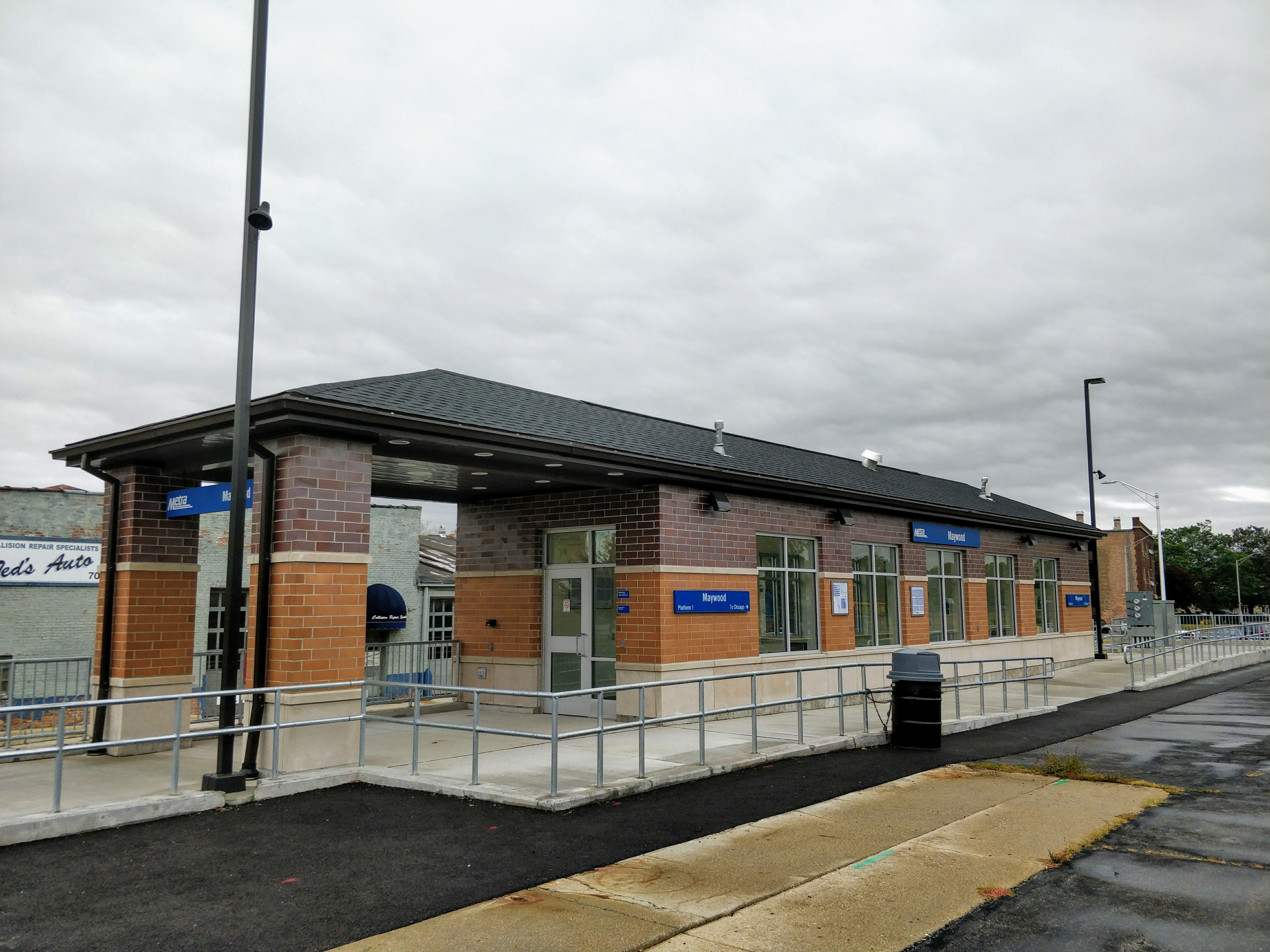 The new Maywood, IL Commuter Station, opened June 2017.